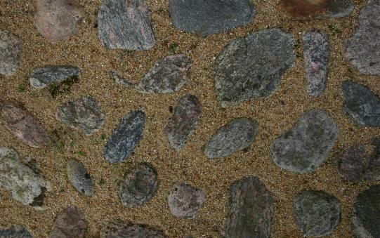 Cobblestones